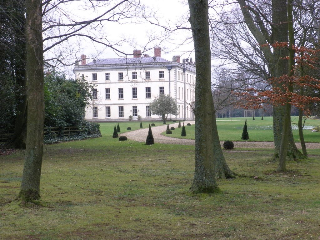 Side elevation, The Mynde